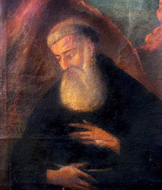 medieval picture with oil of Saint Nikola Tavelić (1340-1391)